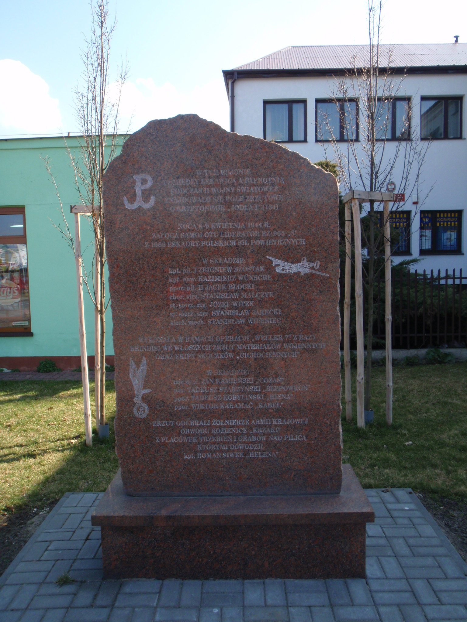 Plaque in Grabów nad Pilicą commemorating Cichociemni